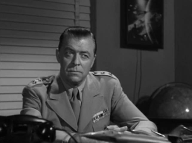 Lyle Talbot as General Roberts in Plan 9 from Outer Space